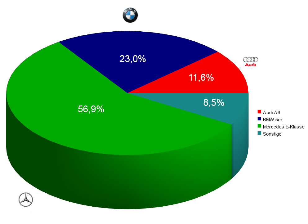 Executive cars: Market shares in Germany in percent [%] in September 2009